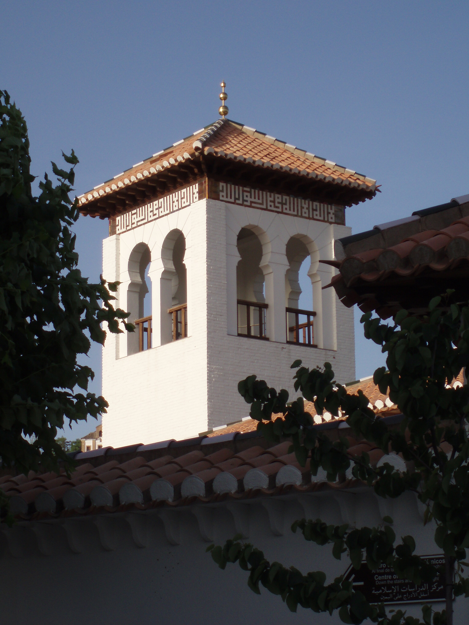 Minaret, Mezquita Mayor, Granada. Kufic characters: لا اله الا الله محمّدا رسول الله